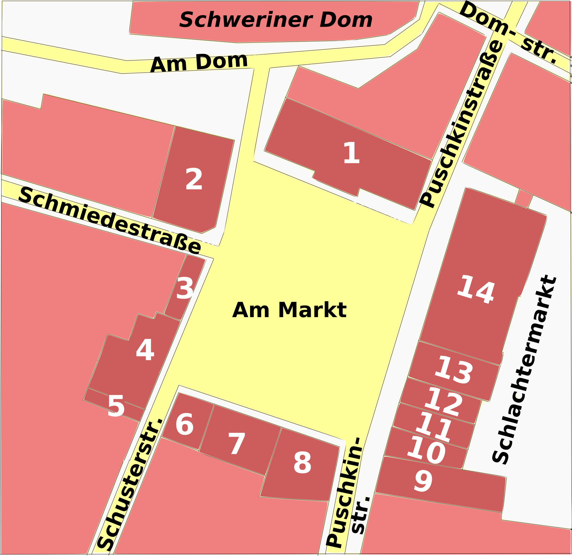 Map of the Market in Schwerin, Germany